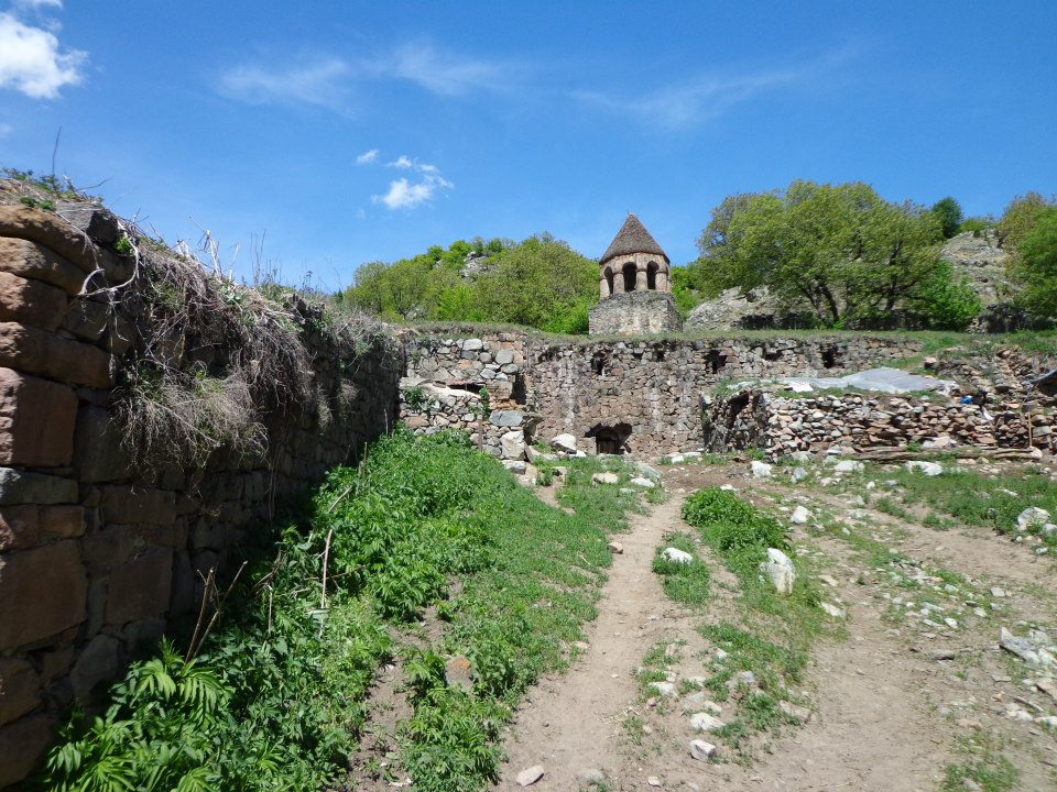 View of Charekvang Monastry (aka Mahrasa Temple)